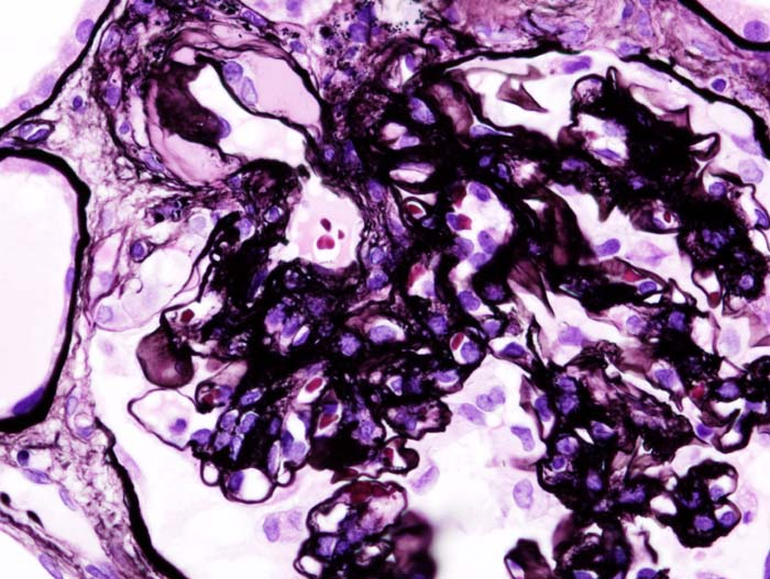 Histopathological image of diabetic glomerulosclerosis with nephrotic syndrome. PAM stain.